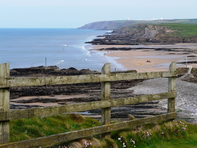 Bude Haven, Summerleaze Beach The view to the north at the edge of Summerleaze beach at low tide. This beach is a favourite with surfers.